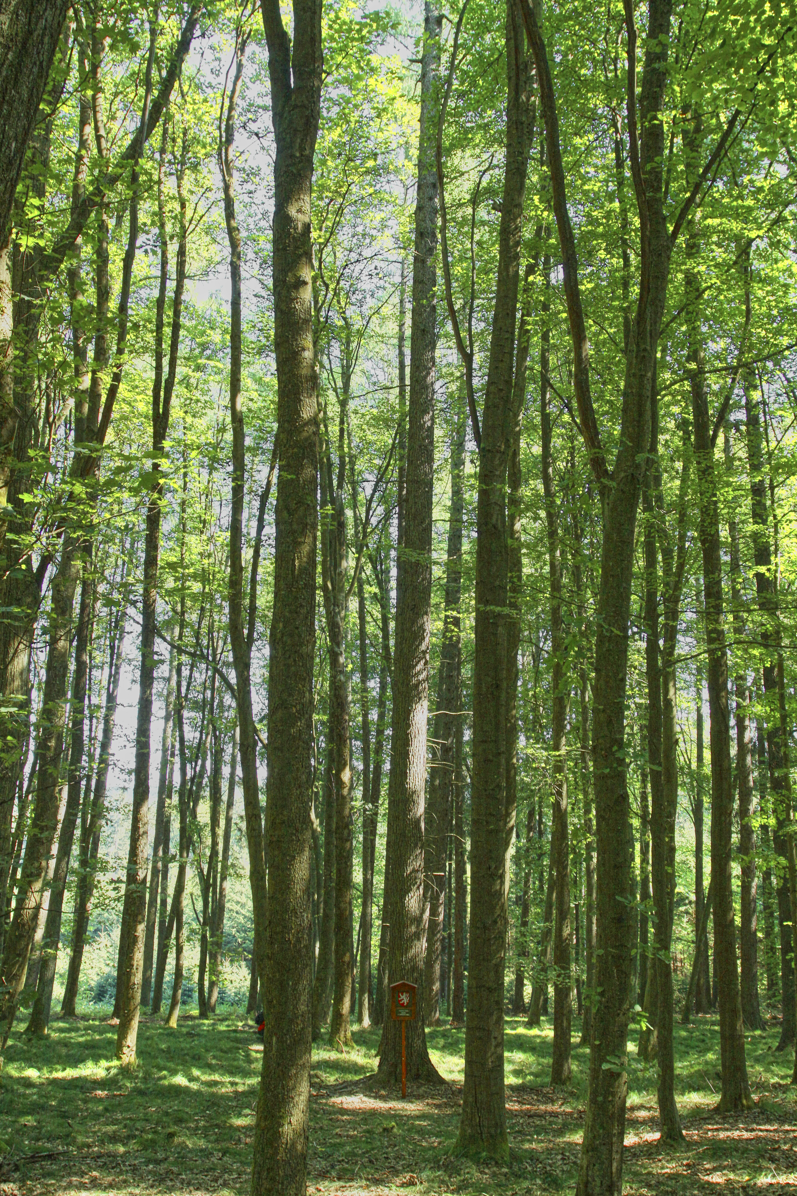 Famous tree Modřín v Jubilejním hájku in Domažlice District, Czech Republic